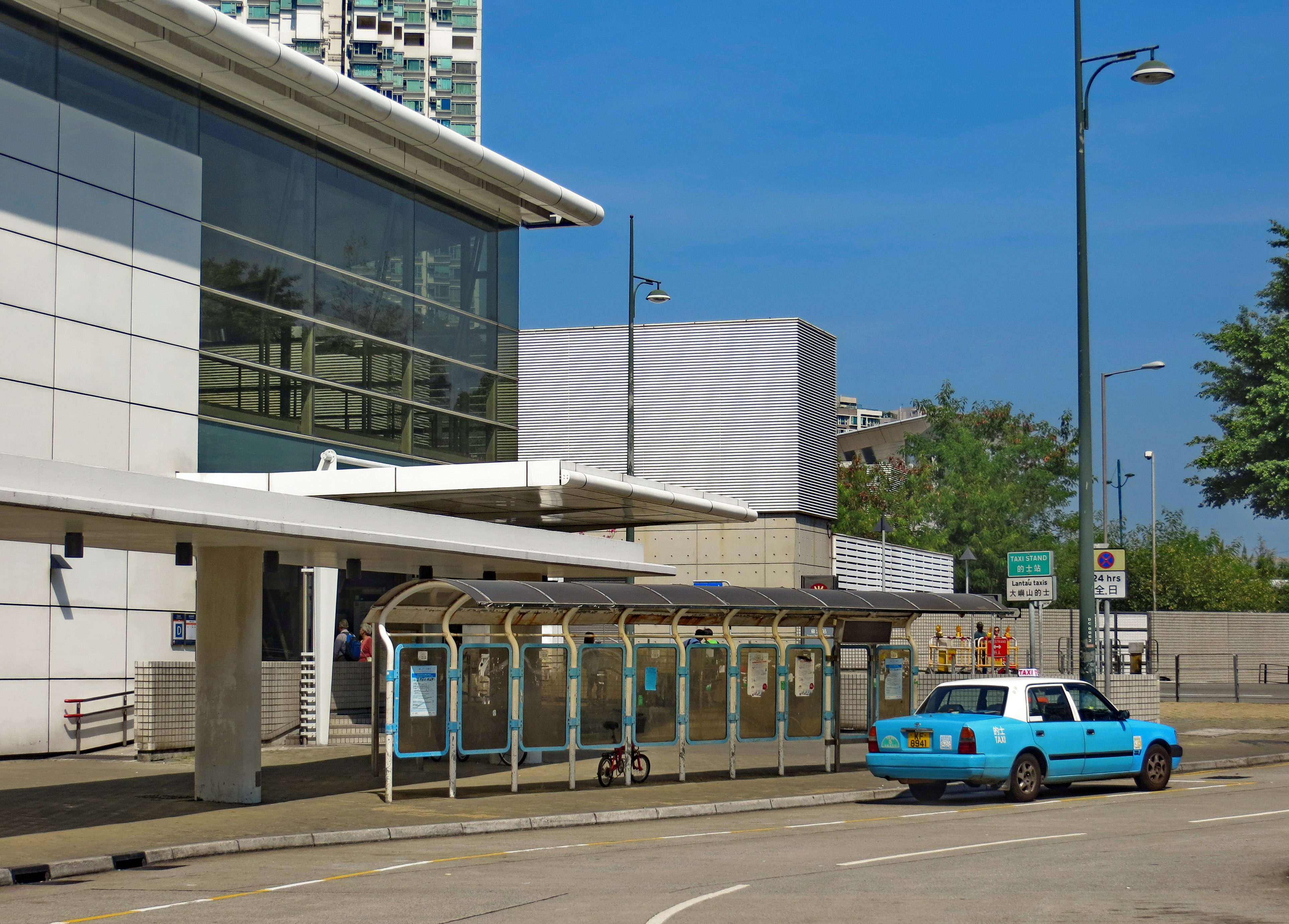 Lantau taxi stand at Tung Chung Station, Hong Kong.